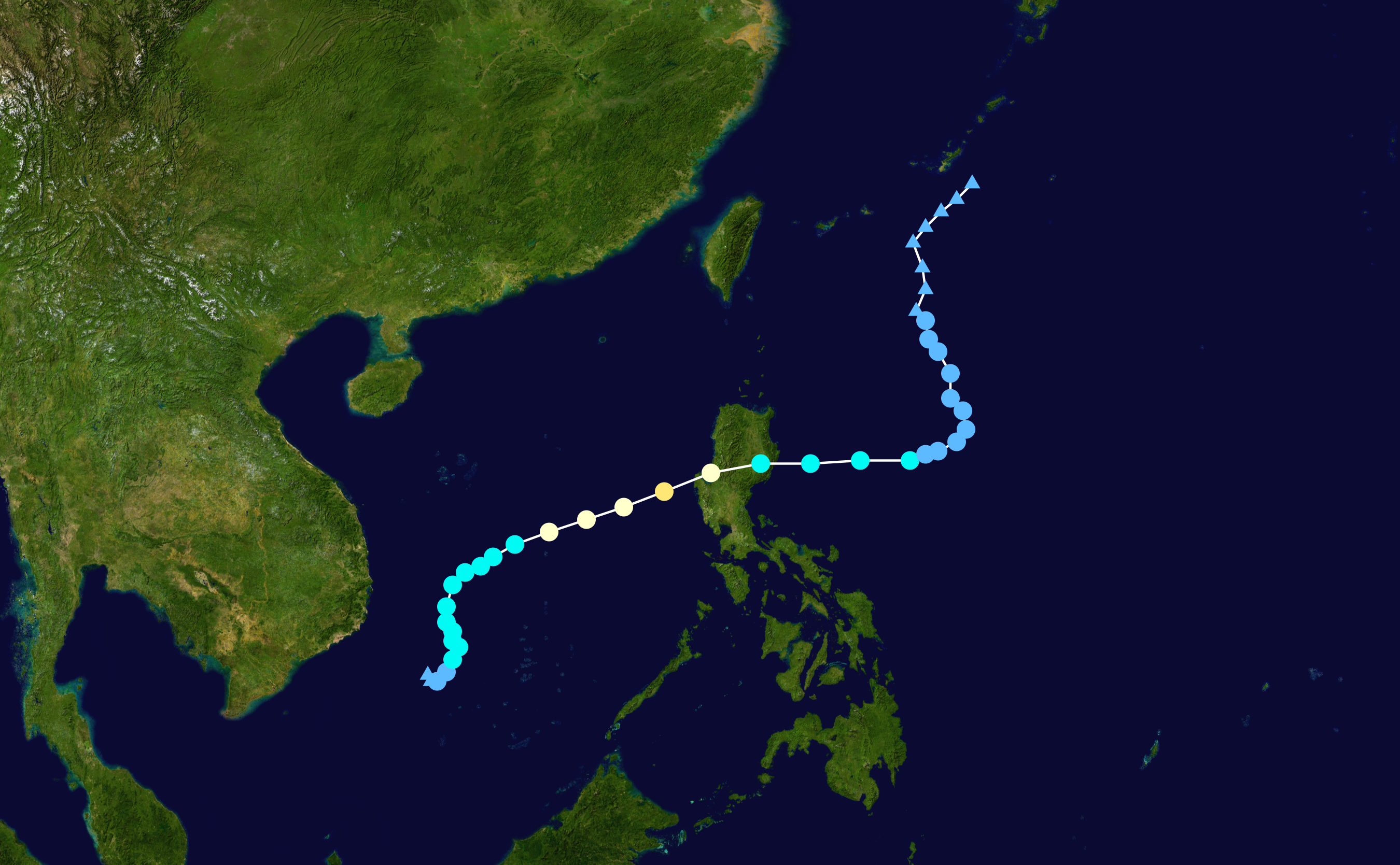 Track map of Typhoon Chan-hom of the 2009 Pacific typhoon season. The points show the location of the storm at 6-hour intervals. The colour represents the storm's maximum sustained wind speeds as classified in the Saffir–Simpson scale (see below), and the shape of the data points represent the nature of the storm, according to the legend below. Saffir–Simpson scale Tropical depression≤38 mph≤62 km/h Category 3111–129 mph178–208 km/h Tropical storm39–73 mph63–118 km/h Category 4130–156 mph209–251 km/h Category 174–95 mph119–153 km/h Category 5≥157 mph≥252 km/h Category 296–110 mph154–177 km/h Unknown Storm type Tropical cyclone Subtropical cyclone Extratropical cyclone / Remnant low / Tropical disturbance / Monsoon depression